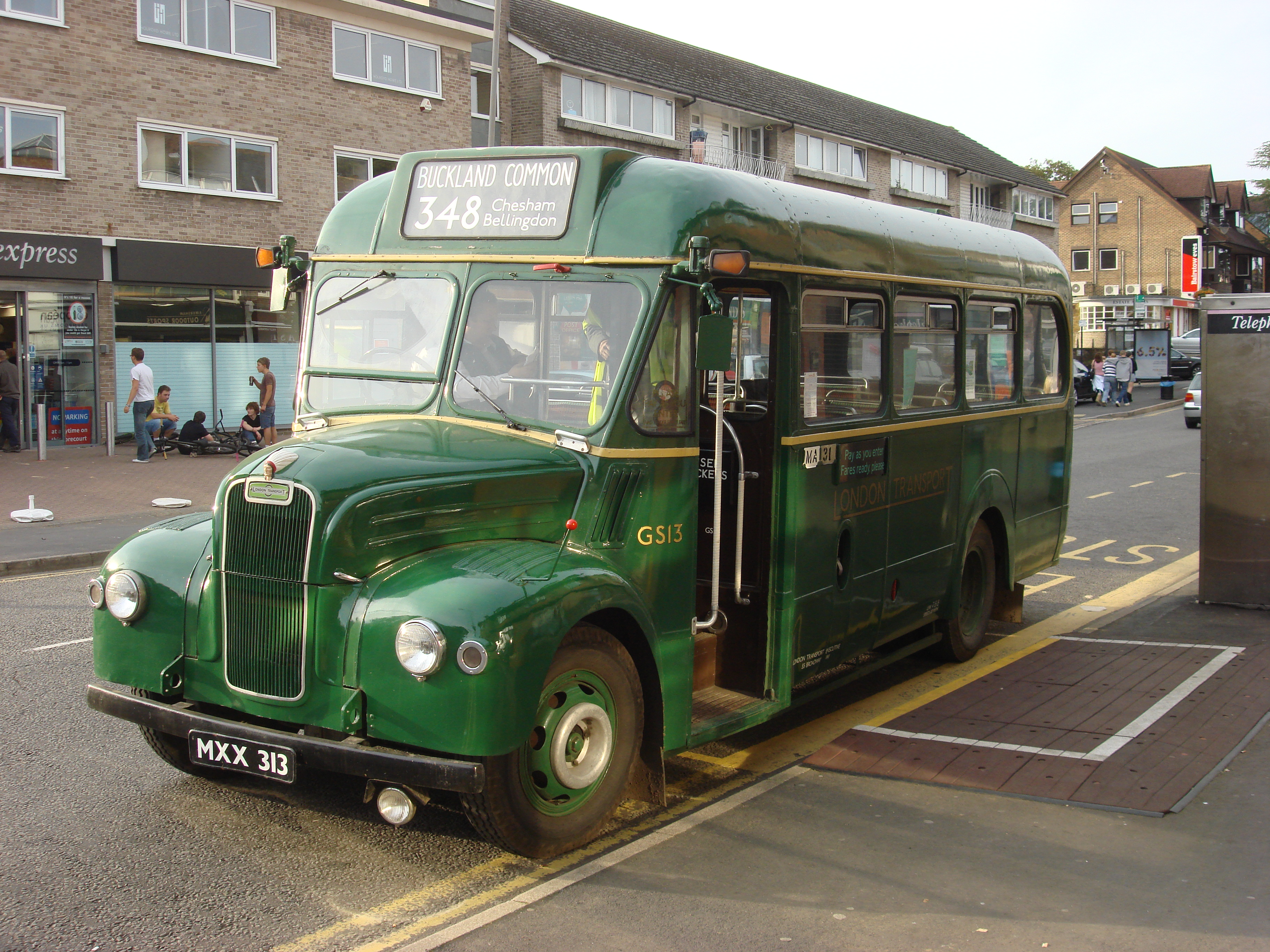 GS13 seen here at Amersham Heritage Open Day. The UK tax office database gives the following information on this vehicle: Date of First Registration - 19 October 1953 Year of Manufacture - 1953 Cylinder Capacity (cc) - 7680CC